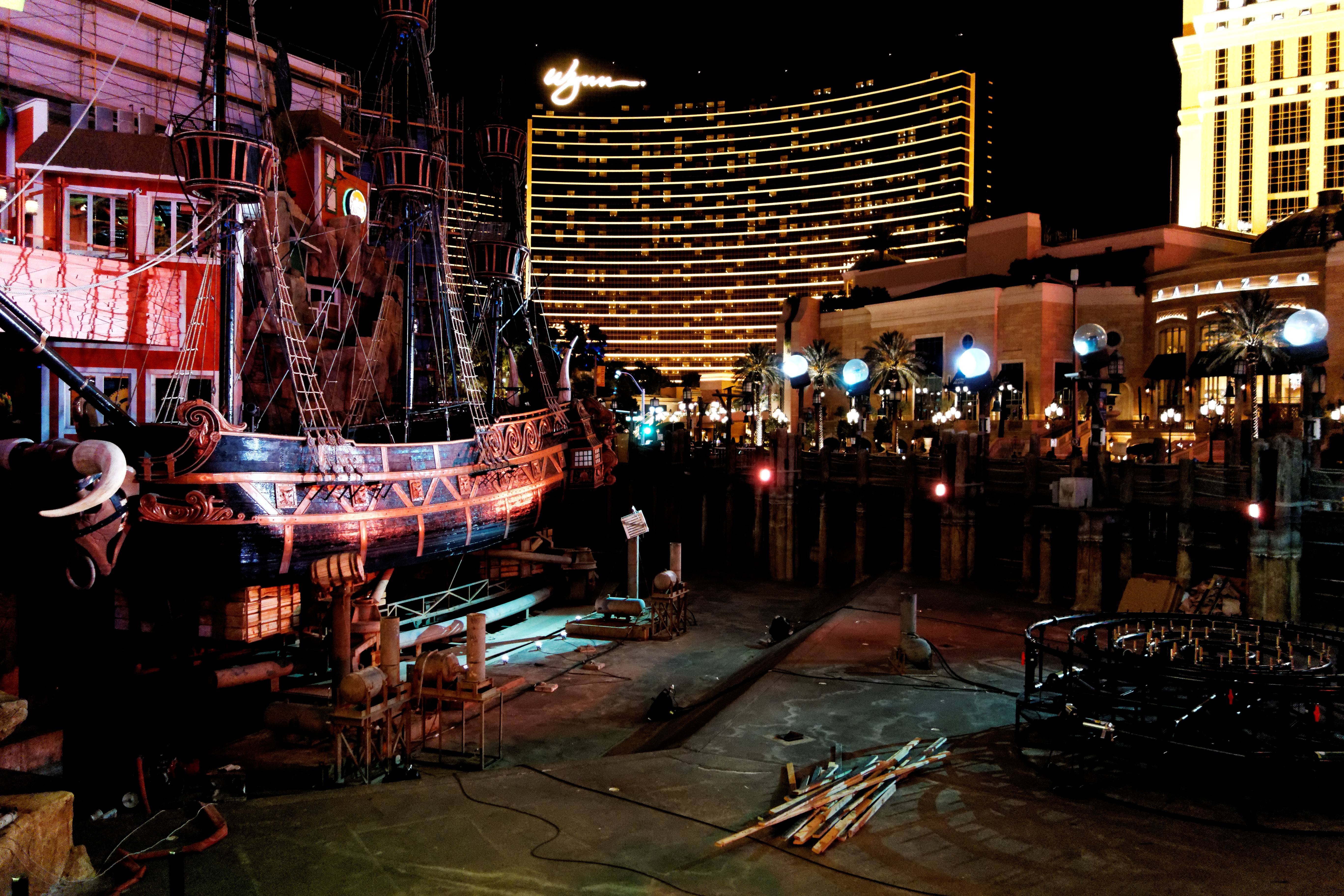 Another view of the drained pools at Sirens of Treasure Island.